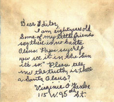 The original letter sent asking about the veracity of santa claus